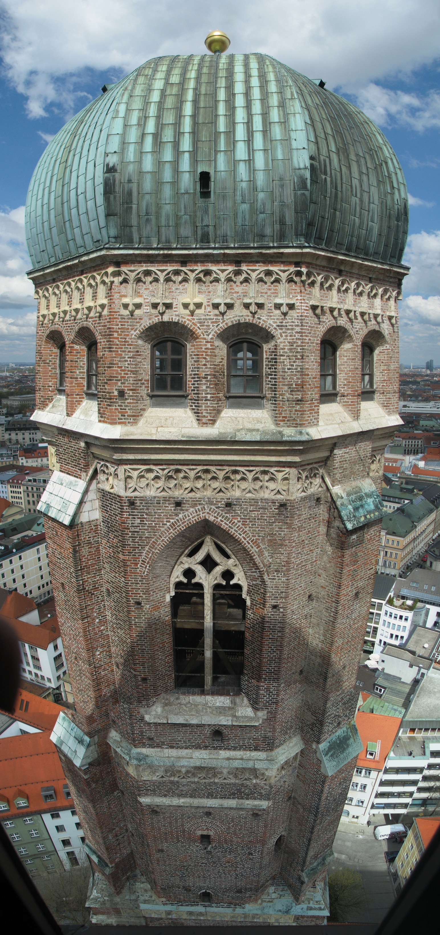 Tower of Frauenkirche, Munich (Germany), as seen from the visitors' platform at the other tower